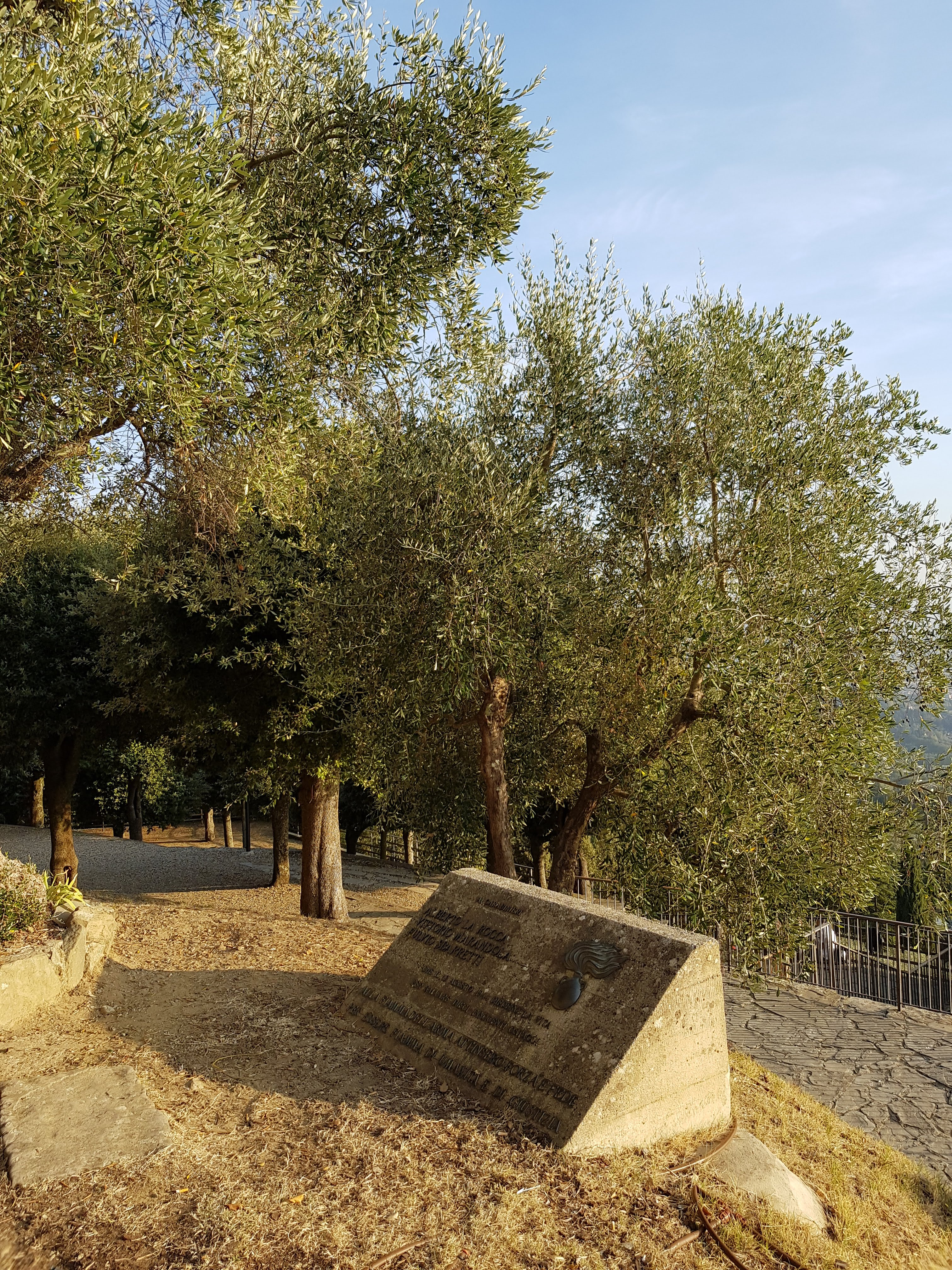 Marcello Guasti, "Monument to the Three Carabinieri", Fiesole, Parco della Rimembranza, 1964, comemorative plaque